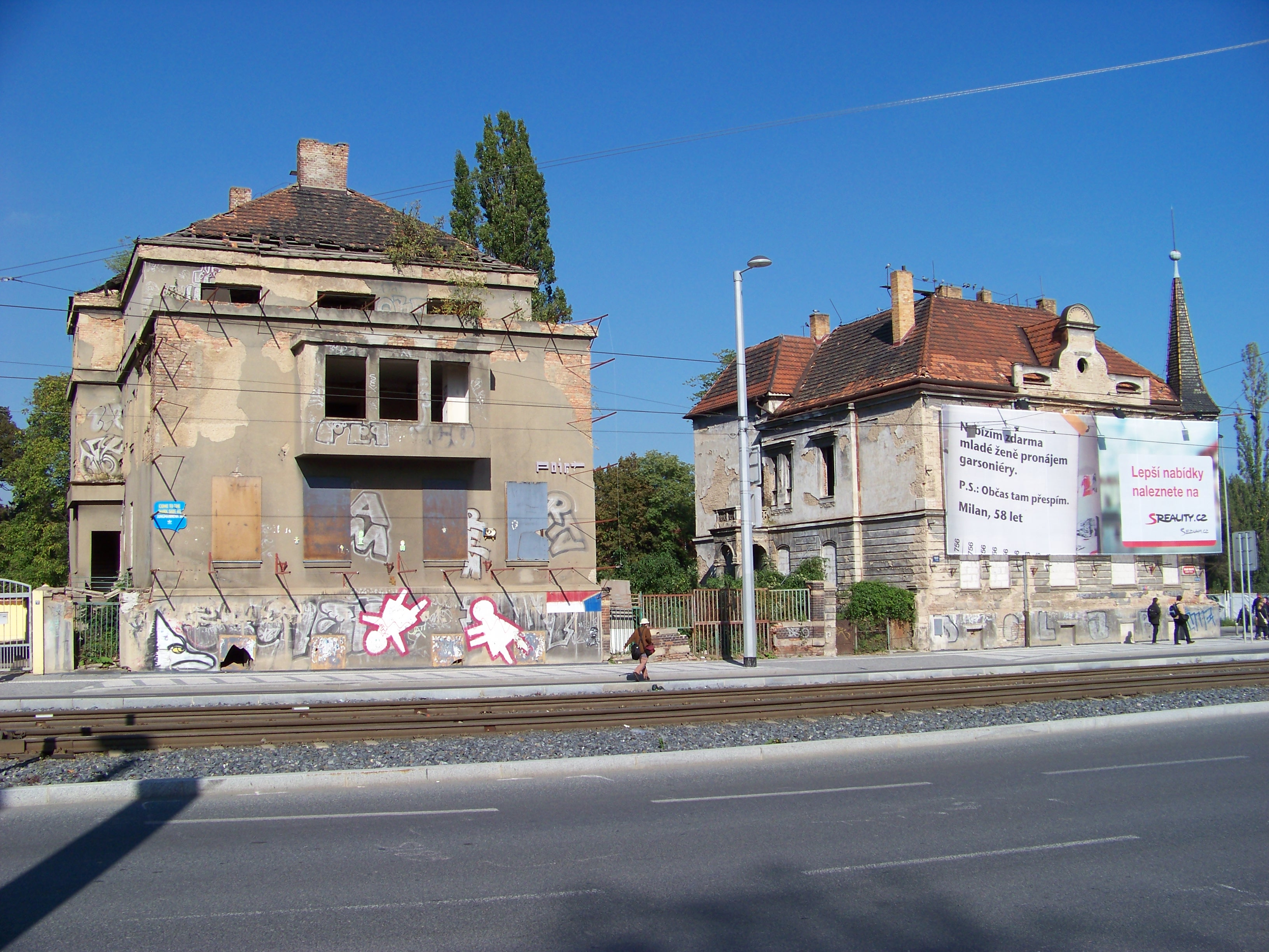 Prague-Bubeneč, the Czech Republic. Milady Horákové 179/102 and 260/100. - OpenStreetMap(Info)